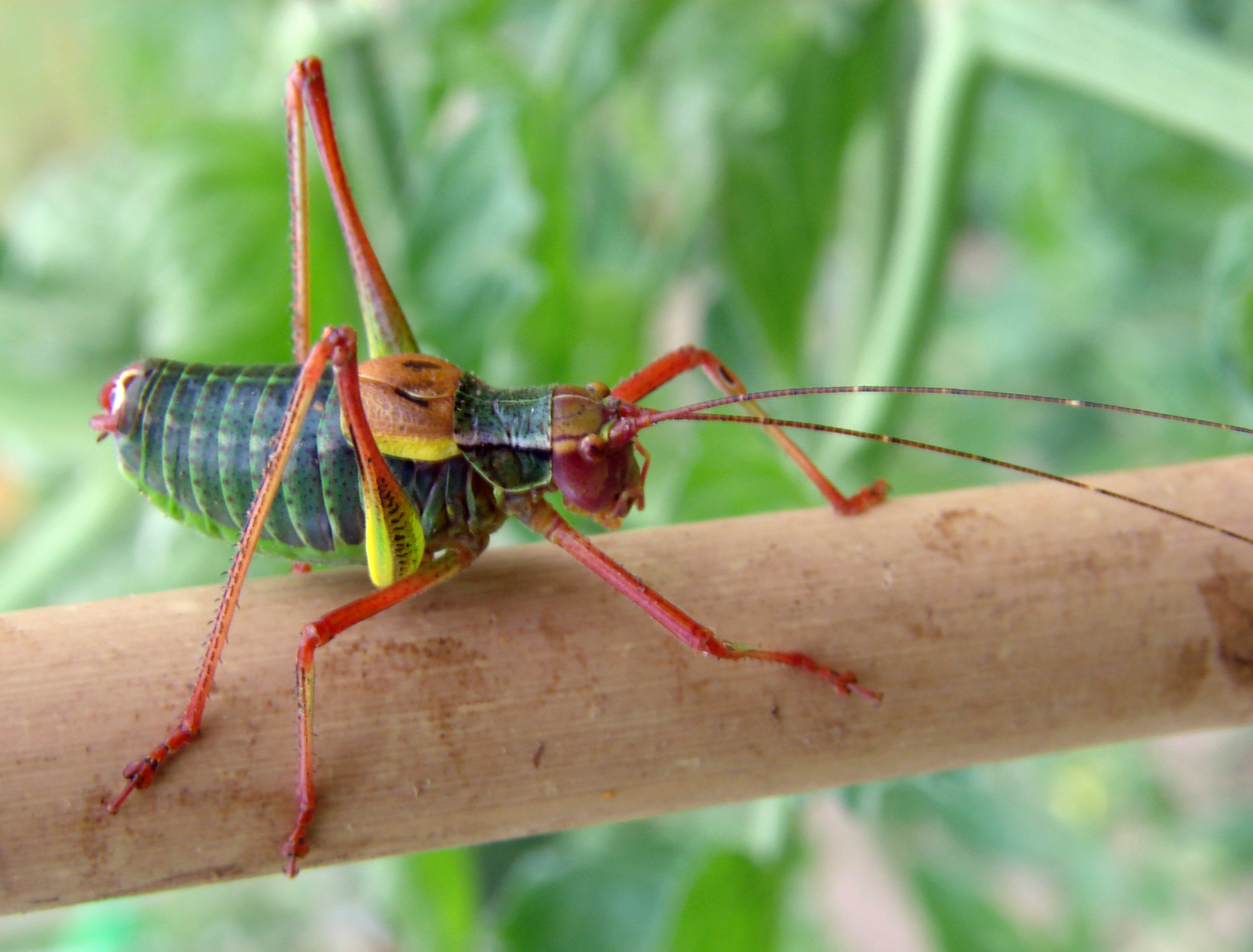 Barbitistes constrictus (male)